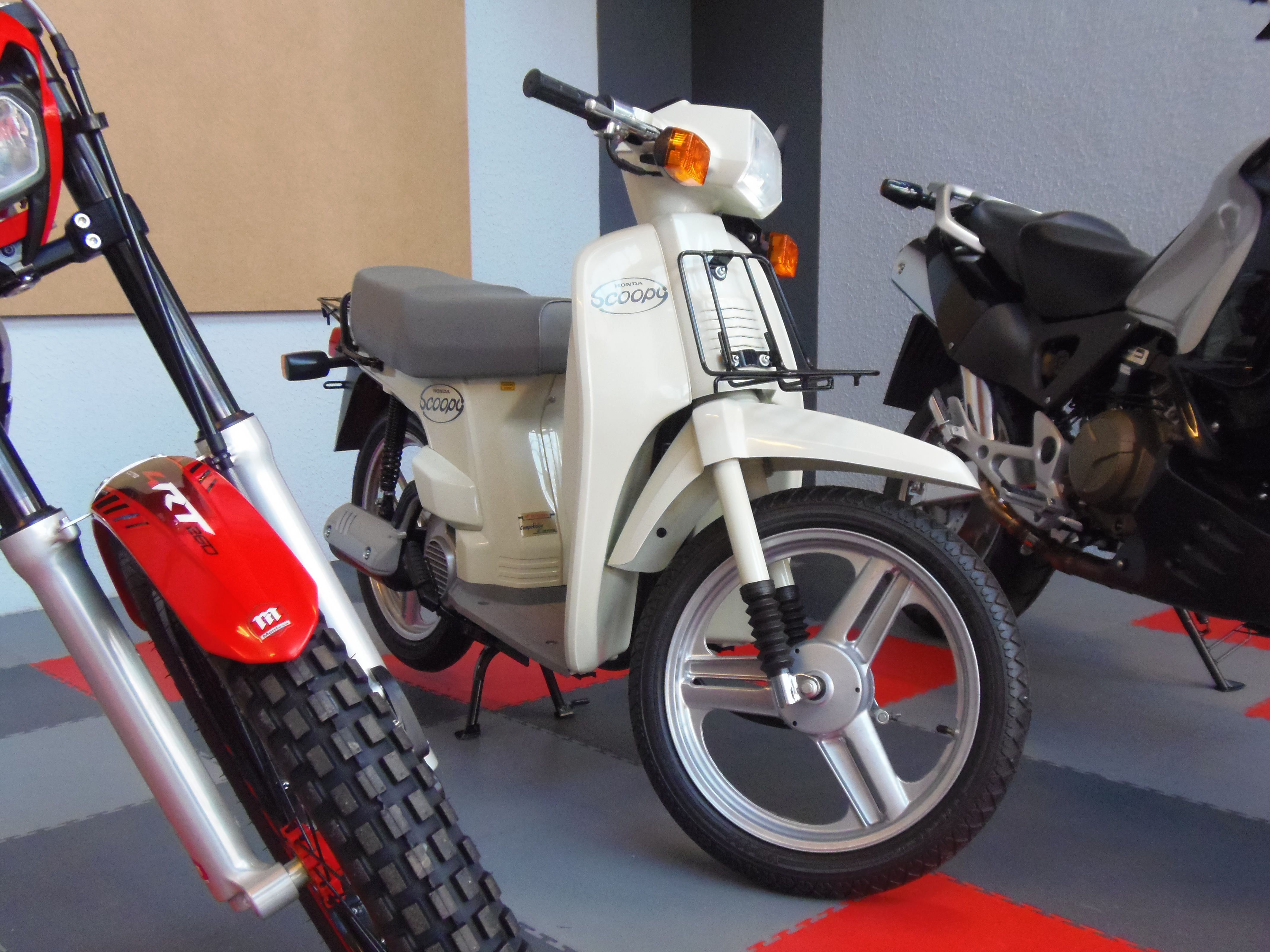 Honda Scoopy SH 75, by 1987 (the filename is wrong). Made in the old Montesa factory, in Esplugues de Llobregat (Catalonia).